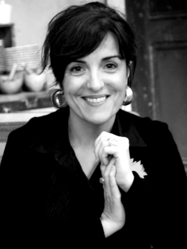 Elvira Lindo